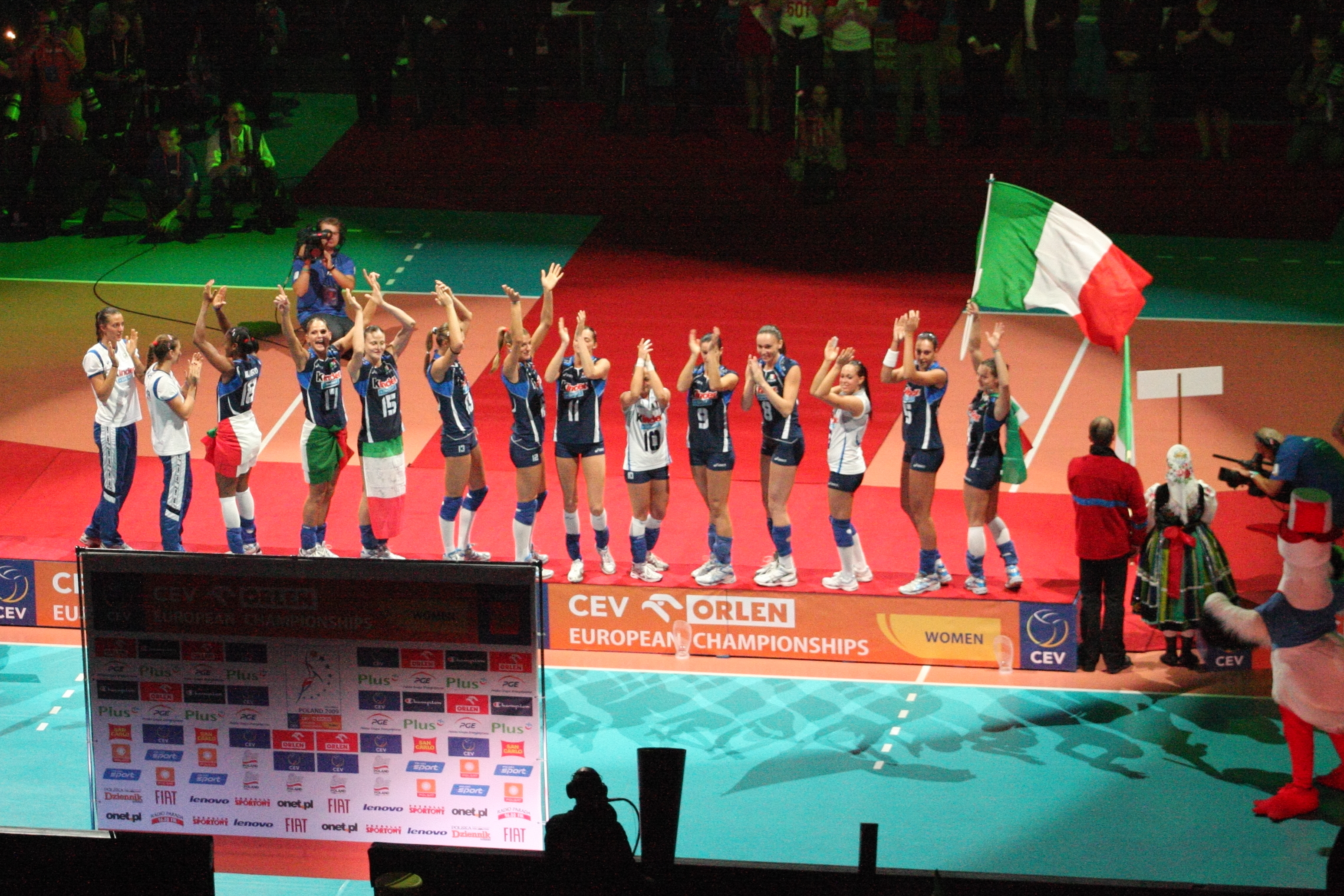 Women’s European Volleyball Championships. Łódź 2009 - Final Match, Italy vs Netherlands (3:0)